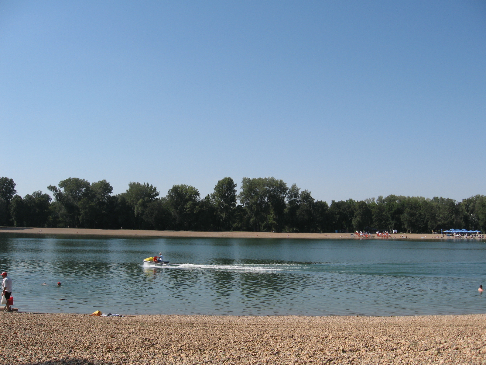 Ada Ciganlija